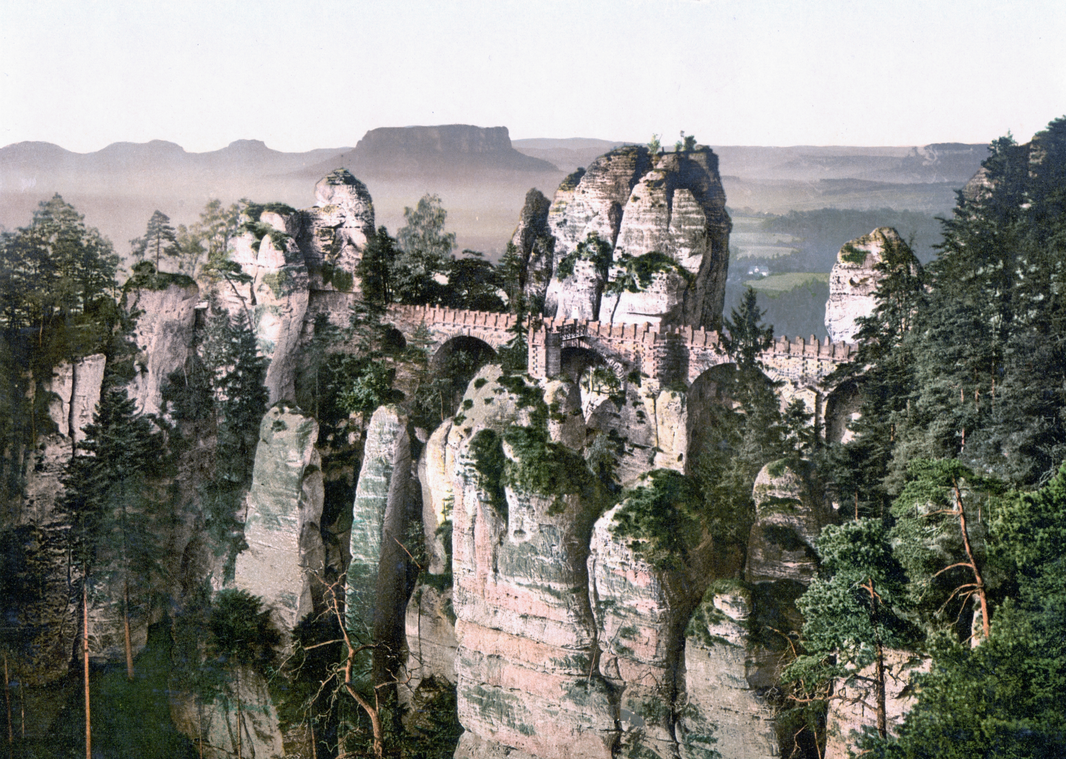 Bridge of the Bastei (Saxony, Germany)